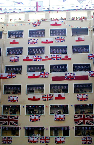 Gibraltar housing estate on tercentenary